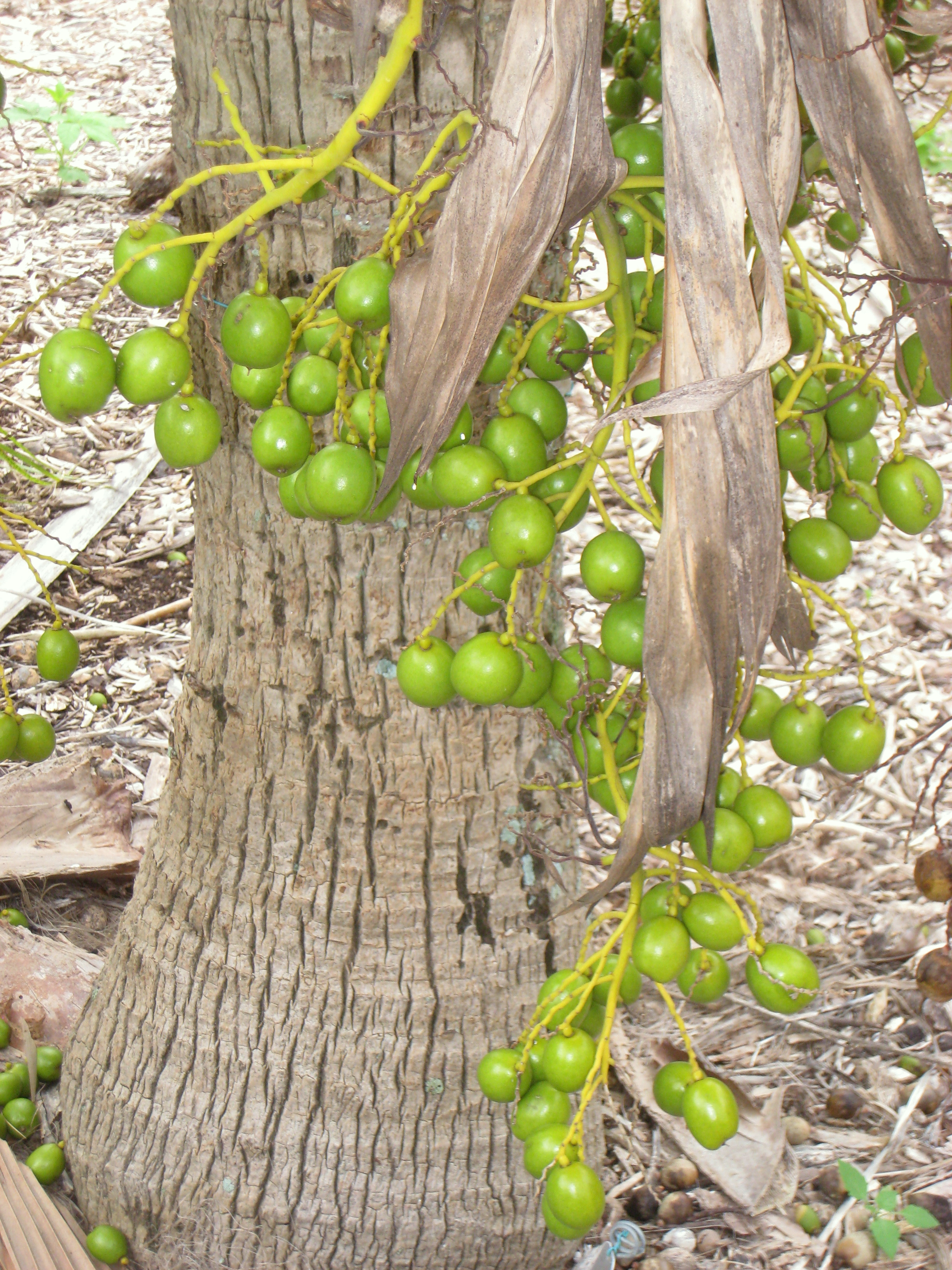 Pritchardia schattaueri specimen in Koko Crater Botanical Garden, Honolulu, Hawaii, USA.